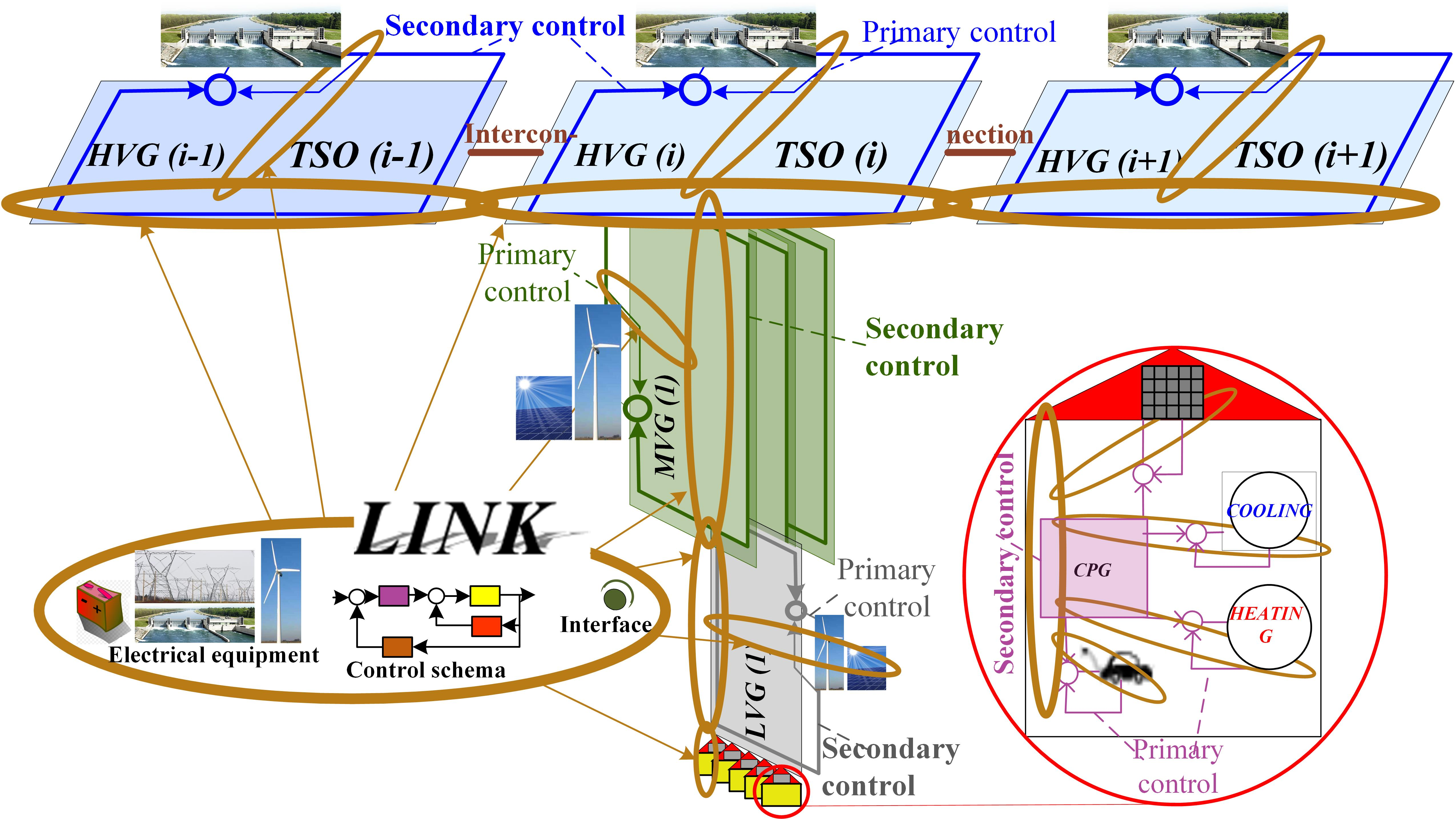 Overview of the holistic technical power system model